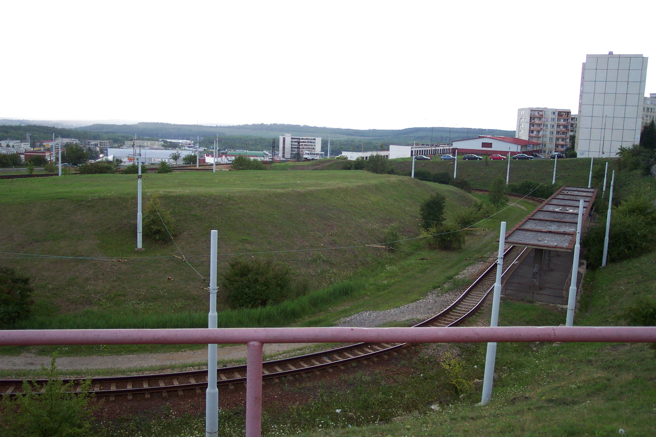 Tram terminus Most-Velebudice in Most, Ústí nad Labem region, CZ